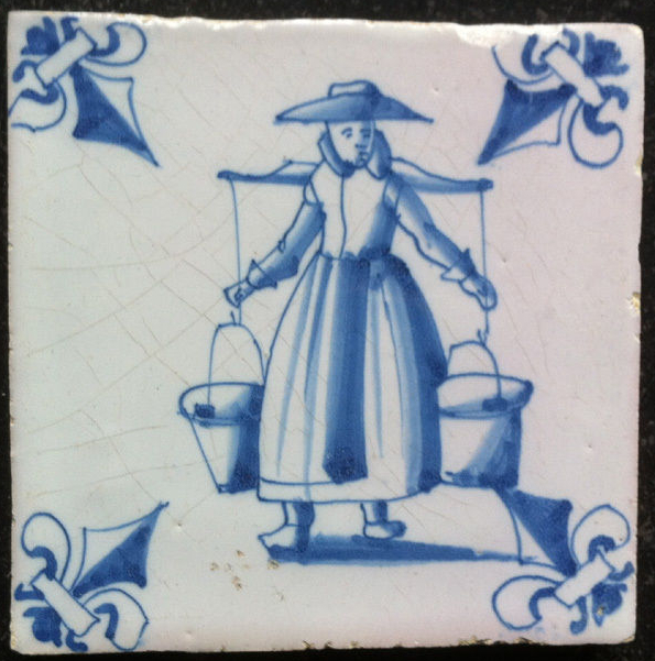 Delft blue and white tile of a milkmaid